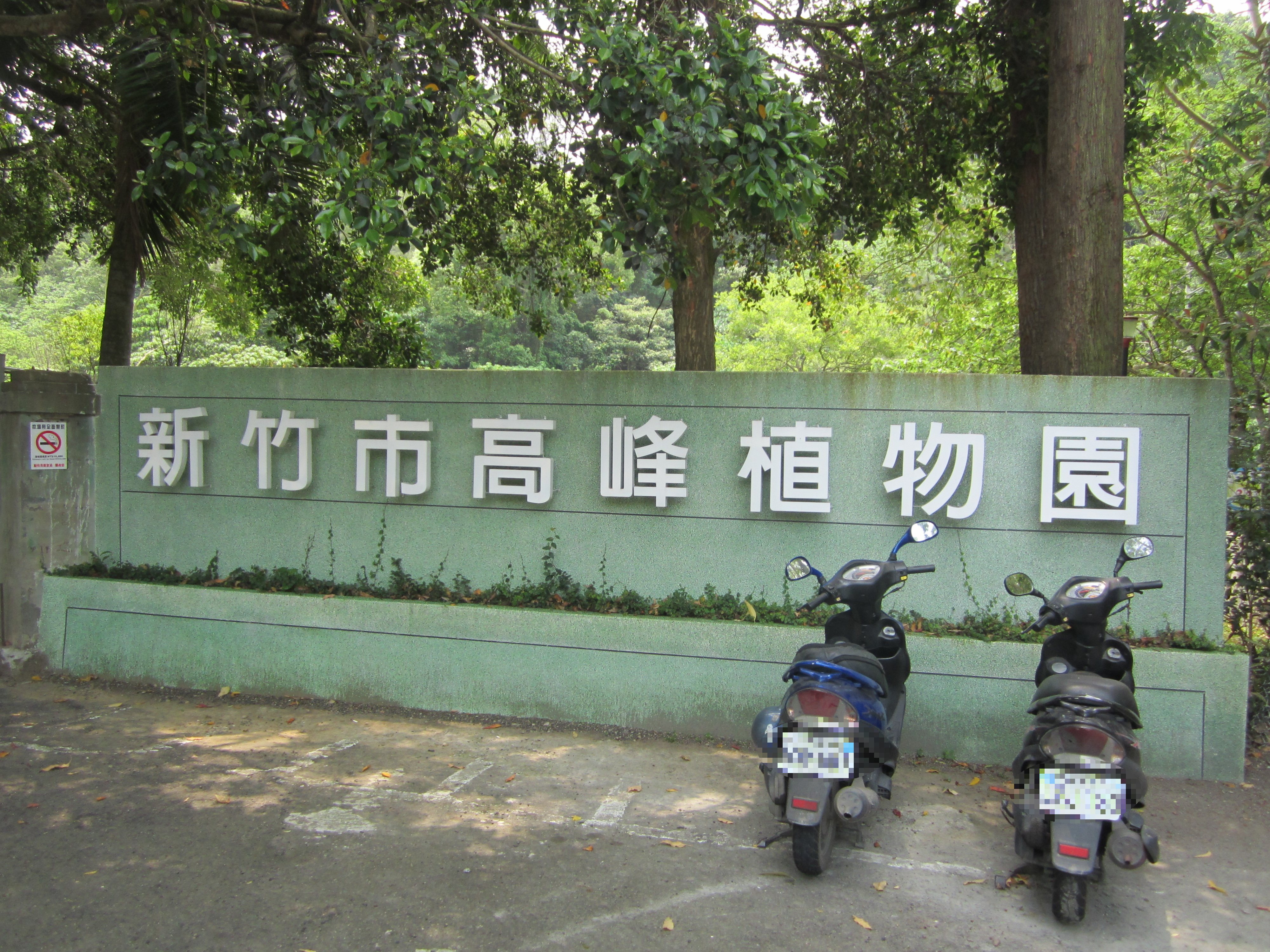 The gate of Hisnchu City Gaofeng Botanical Garden.